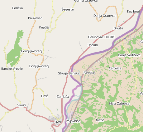 Map of Banovina area between Dvor and Kozibrod in Croatia